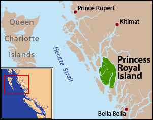 This is a locator map of Princess Royal Island. I, Pfly, made it with ArcGIS, Adobe Illustrator, and Adobe Photoshop. The coastline data is from the Digital Chart of the World.